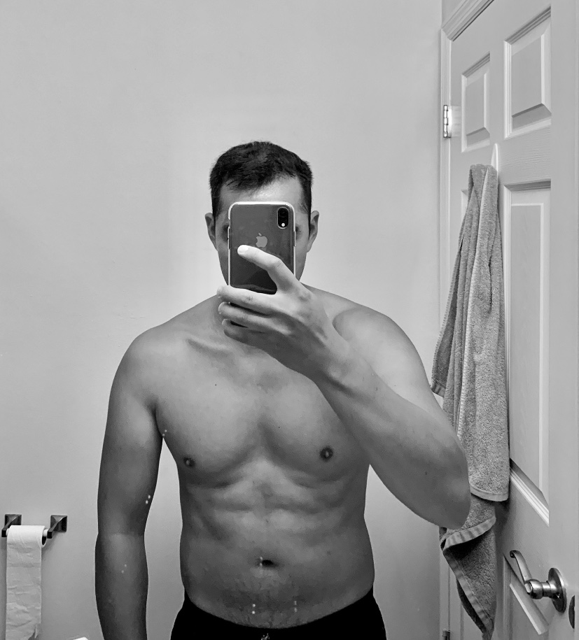 A thirst trap. A shirtless man taking a selfie in the bathroom.